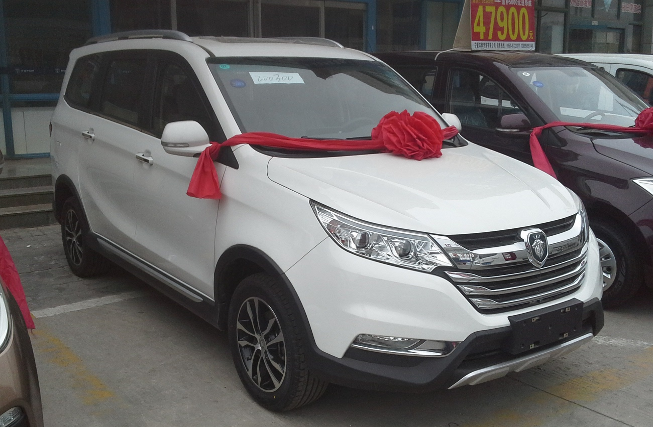 Gratour im8 photographed in Yinchuan, Ningxia province, China.